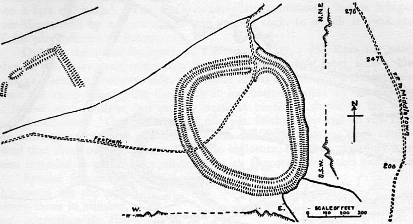 Map of earthworks at Cadbury Camp, Tickenham, Somerset, England.